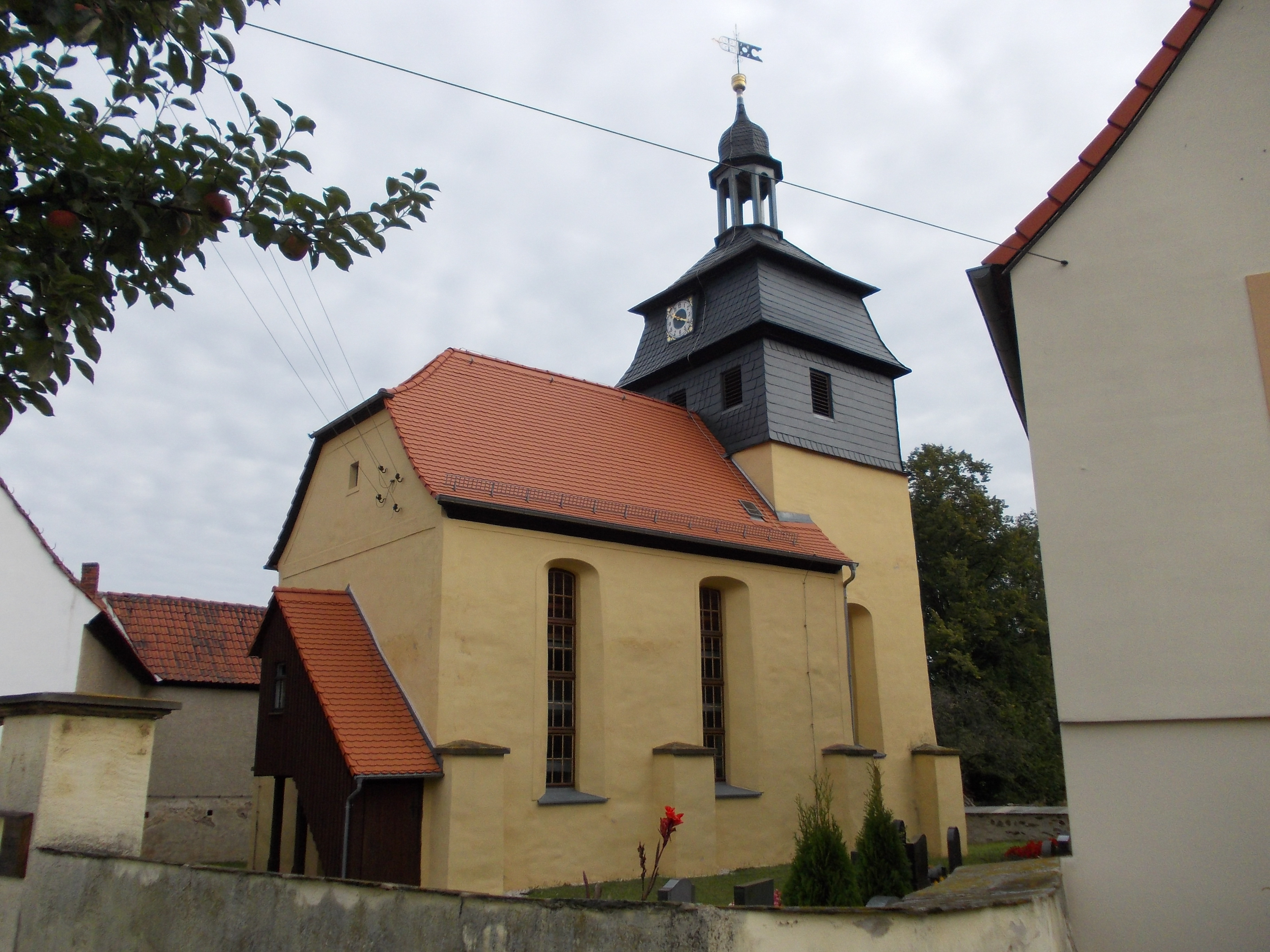 Teichwitz church (Greiz district, Thuringia)